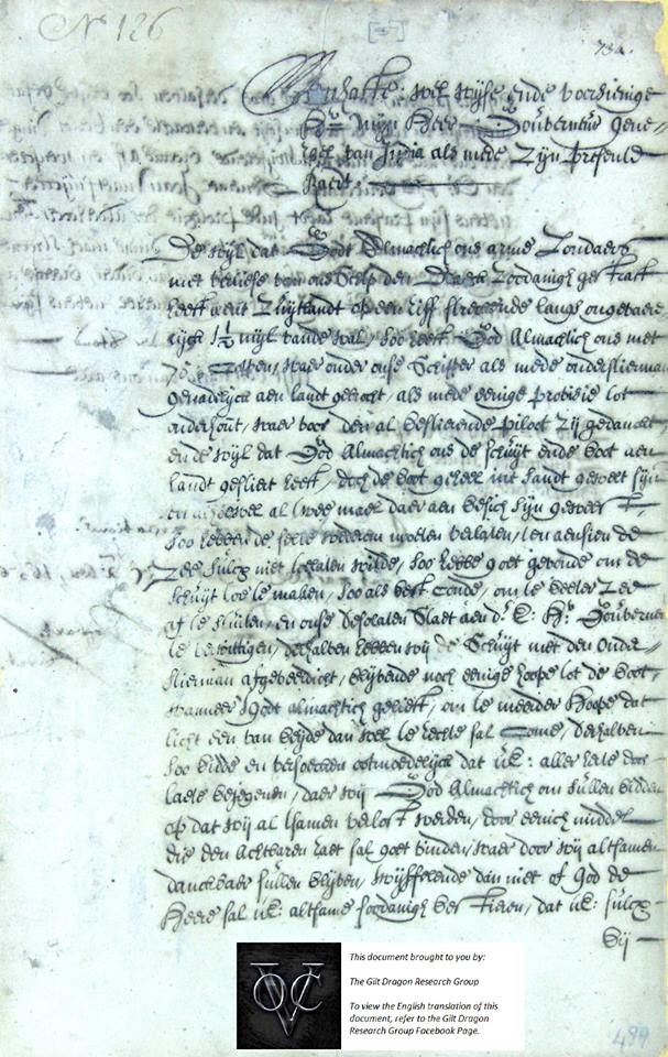 Gilt Dragon Survivors Letter (07 May 1656)